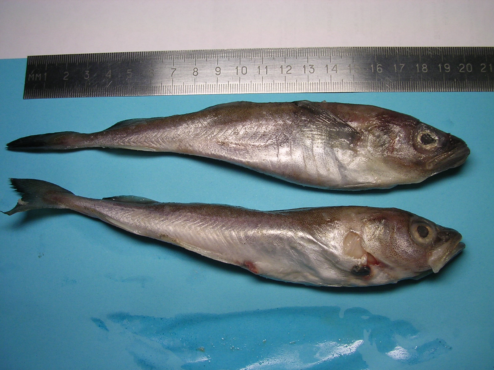 Latin name: Boreogadus Saida. Comercial name: Polar cod, bacalao boreal, Saika. Minimun size 12 cm Maximun size 22 cm